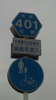 Saga Prefectural Road No.401 (Kakihisa, Nabeshimamachi, Saga, Saga, Japan)